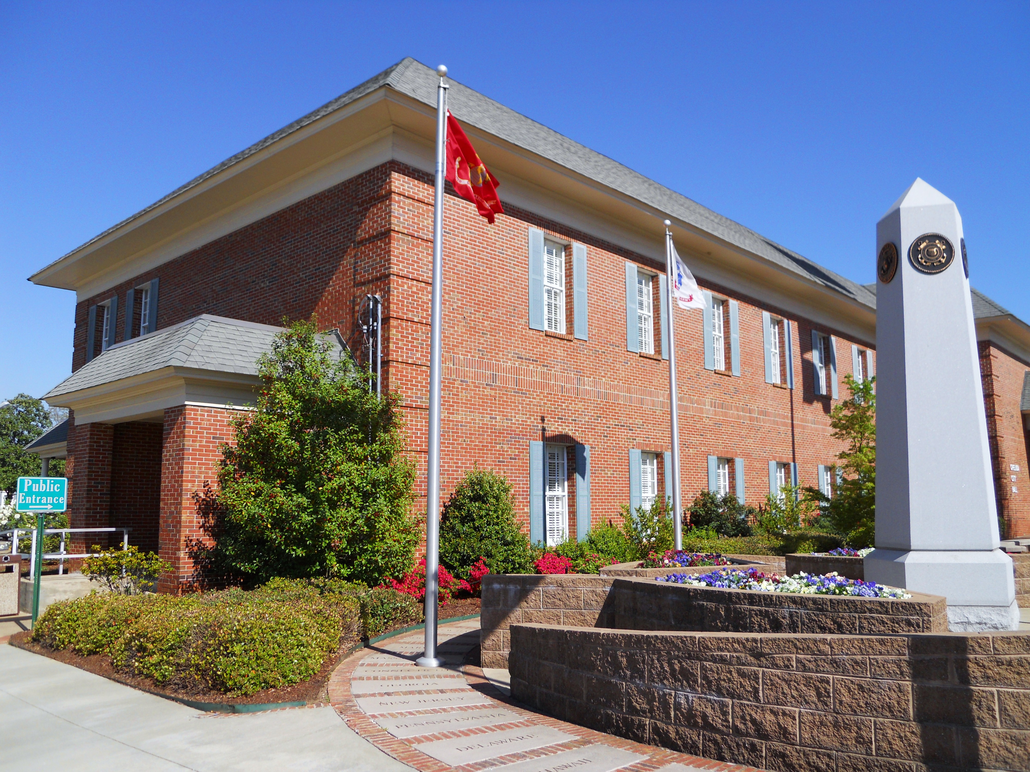 This is a photograph of the City Hall of Opelika, Alabama.